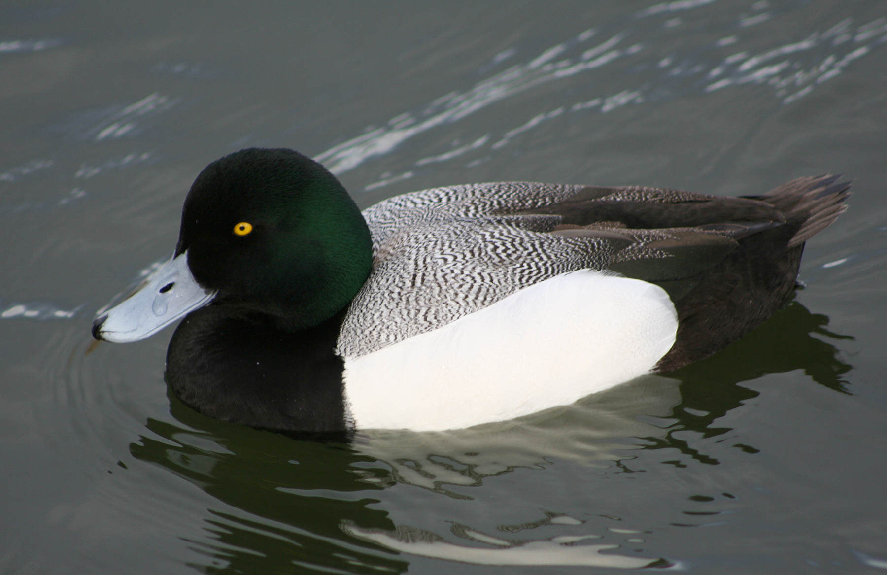 Male Greater Scaup (Aythya marila) taken at Lake Merritt in Oakland, California.